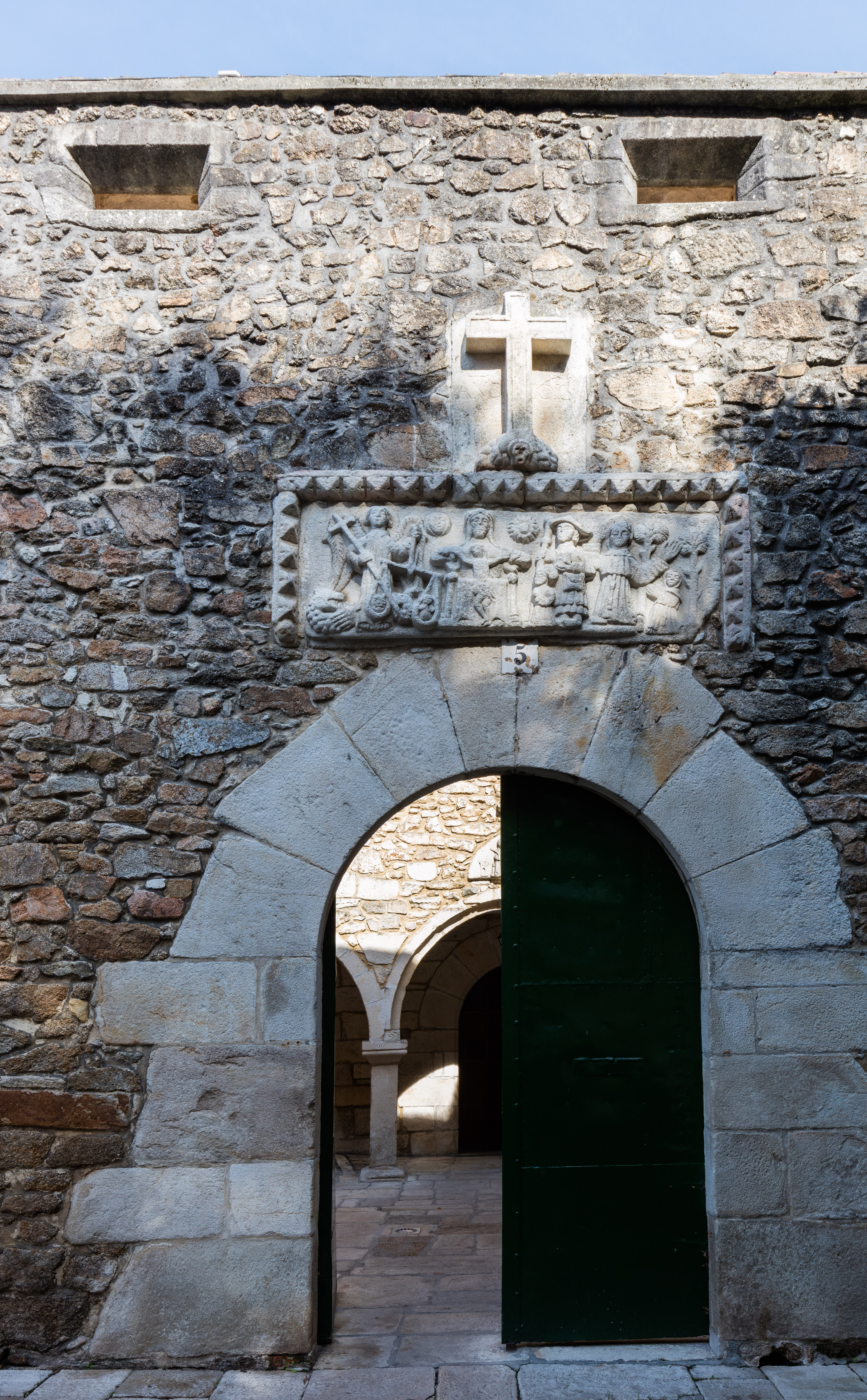 St Barbara convent, La Coruña, Spain.